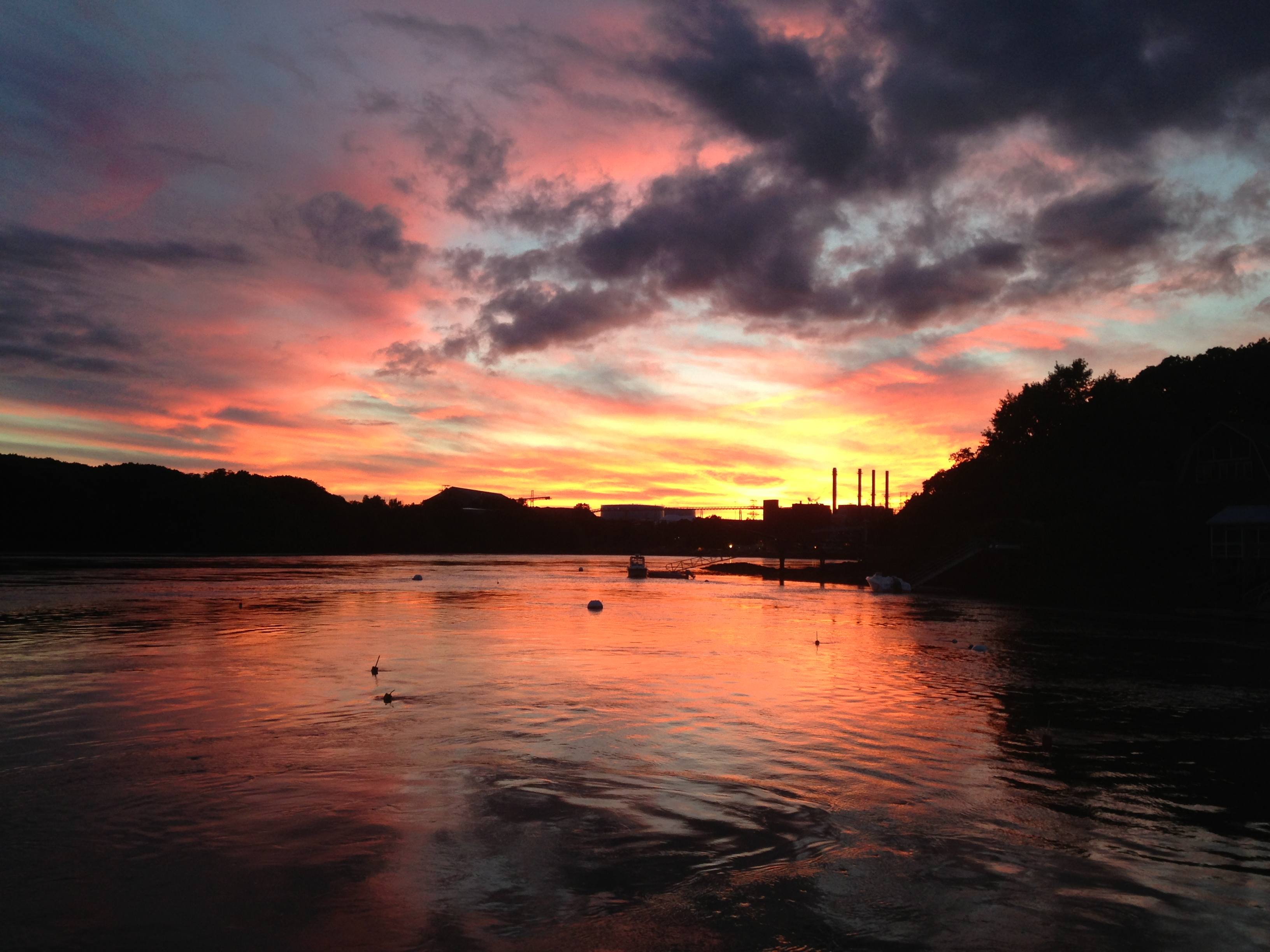 Sunset over the Piscataqua River facing the New Hampshire shore on the Long Reach, with Eliot, Maine, to the right (September 2014)